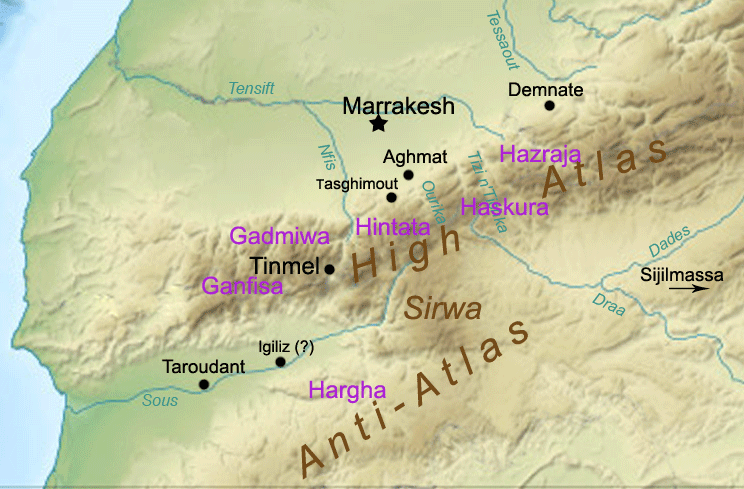 Map giving the approximate location of the six principal Berber Masmuda tribes that adhered to the Almohad movement in the early 12th C. (Hargha, Ganfisa, Gadmiwa, Hintata, Haskura, Hazraja). Locations as reported by C.A. Julien (1931) Histoire de l'Afrique du Nord, des origines à 1830. Paris: Payot.